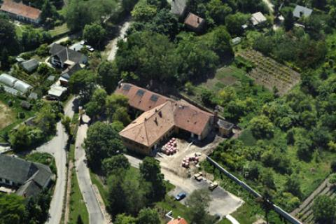 Rácalmás, Hungary, aerialphotography